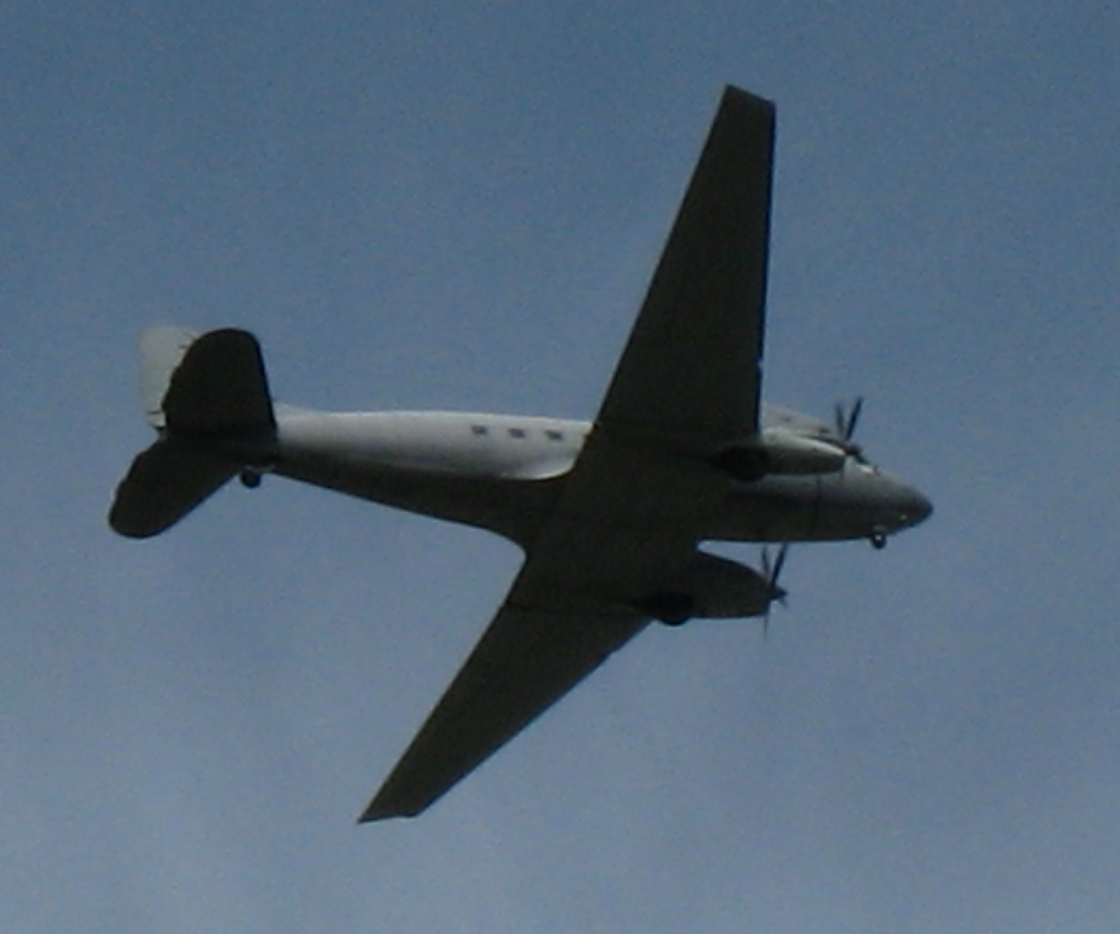 An AC-47 "Fantasma" during F-Air 2008